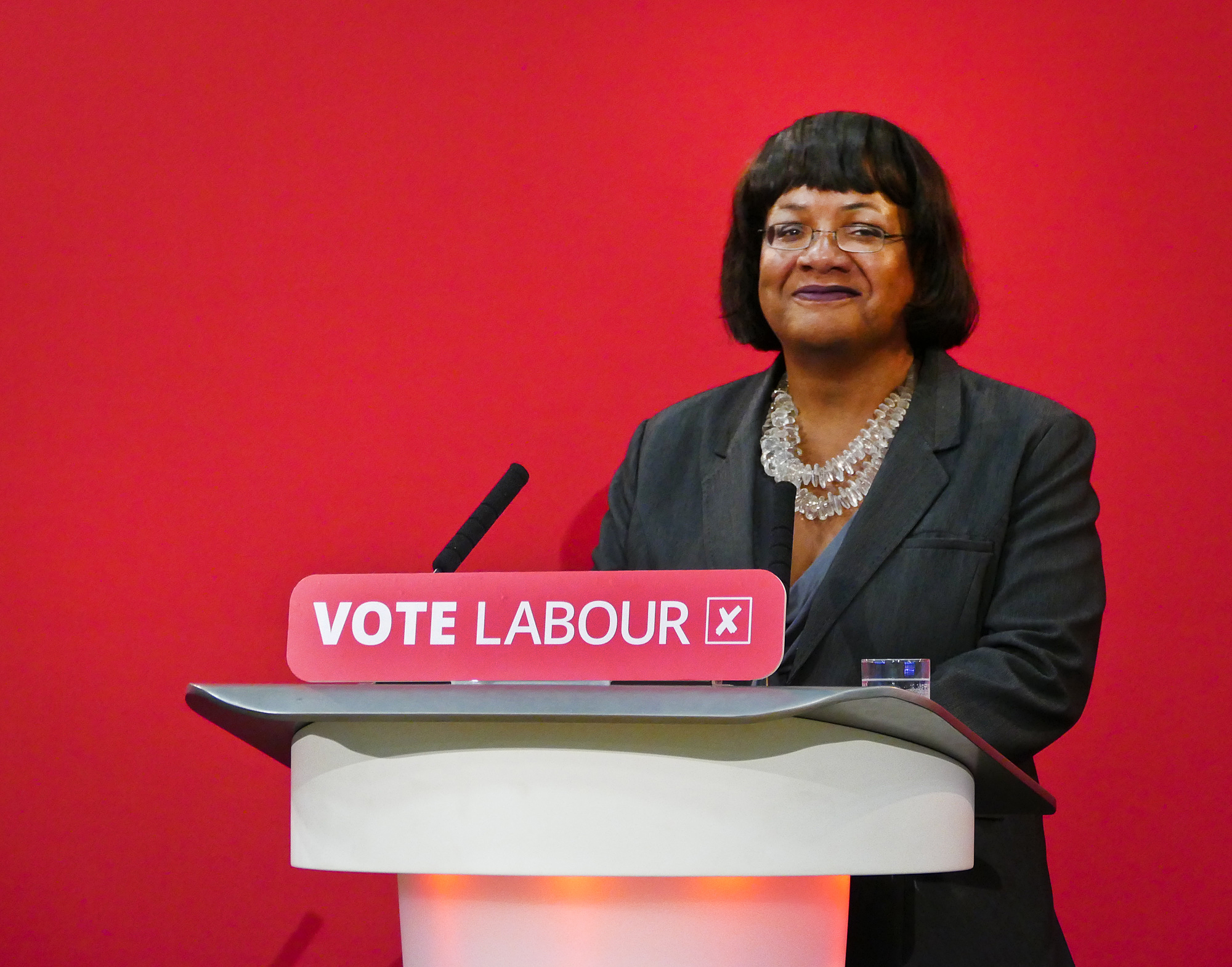 Diane Abbot MP speaking at the Labout Party (UK) 2018 Local Elections Launch in Trafford, Greater Manchester.